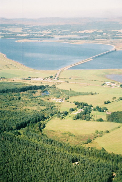 Aerial view of Tarlogie and the Dornoch Bridge behind